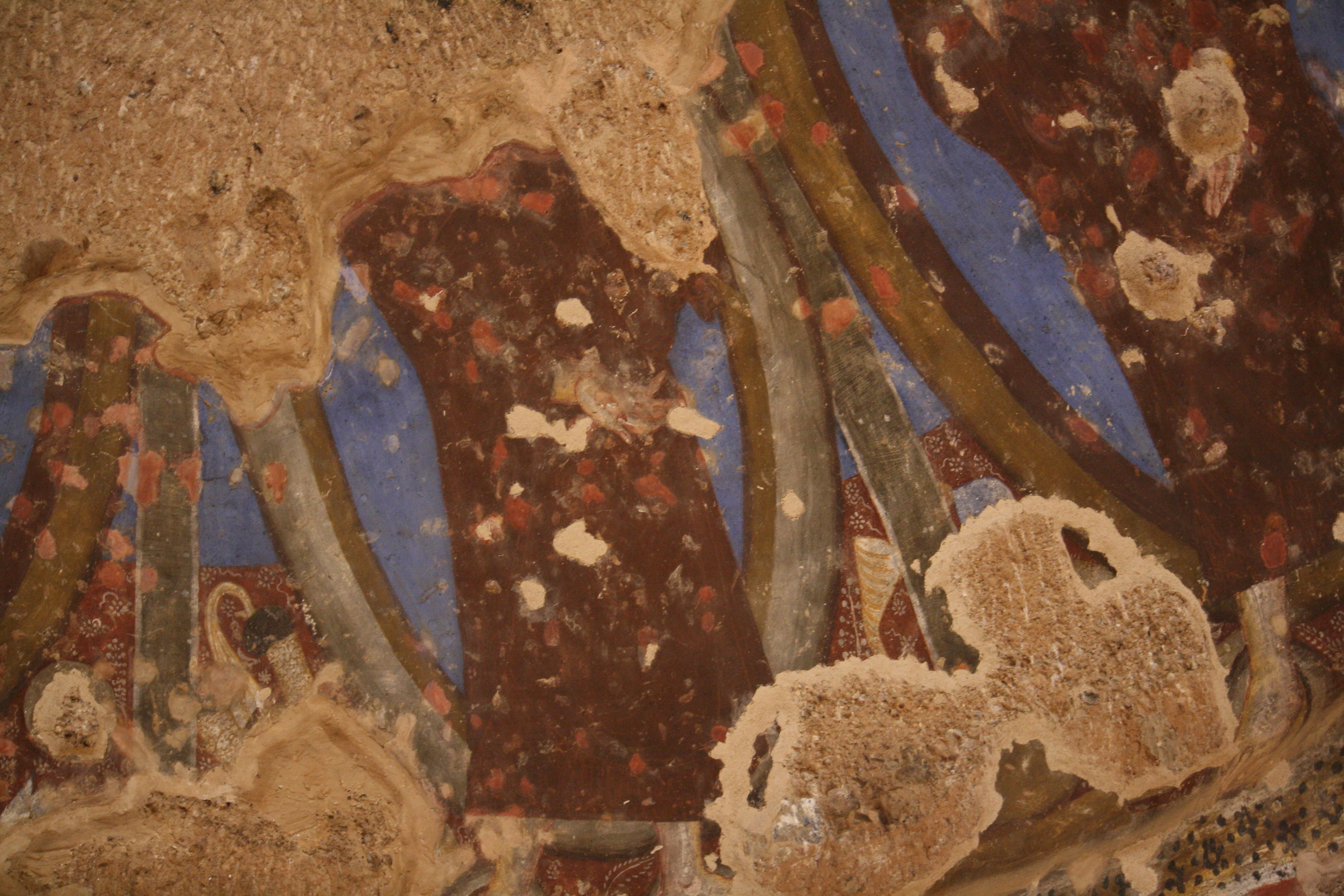 Detail of the frescoes inside the caves of the Buddhist complex of Bamian Afghanistan in 2010